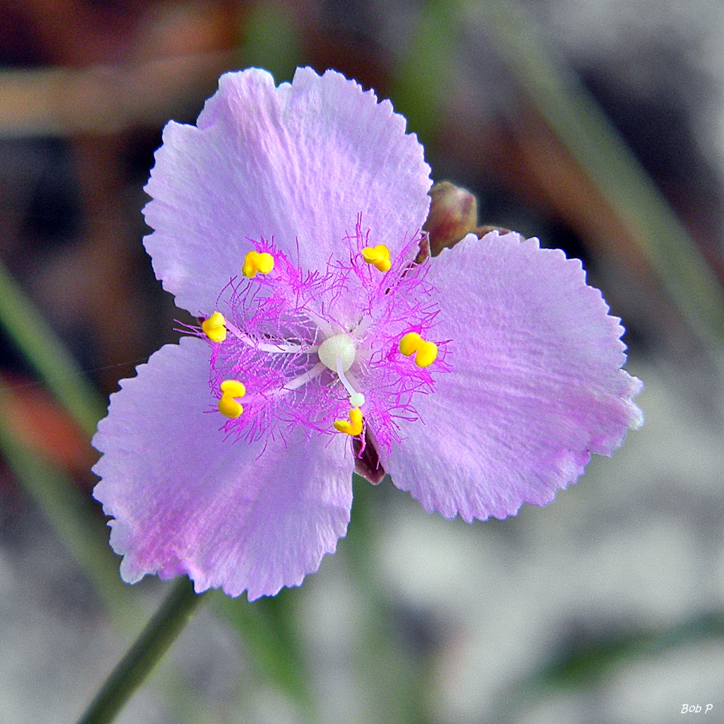 The roselings are blooming again in the scrub at Jonathan Dickinson State Park. I look forward to these each year. They range from white with a tinge of pink to wild crazy pink! Though small (about 25mm) they are highly visible against the white sand. They are sometimes called Pink Spiderwort or Rosy Spiderwort.